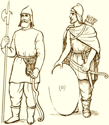 Armenian foot soldiers wearing Phrygian caps.